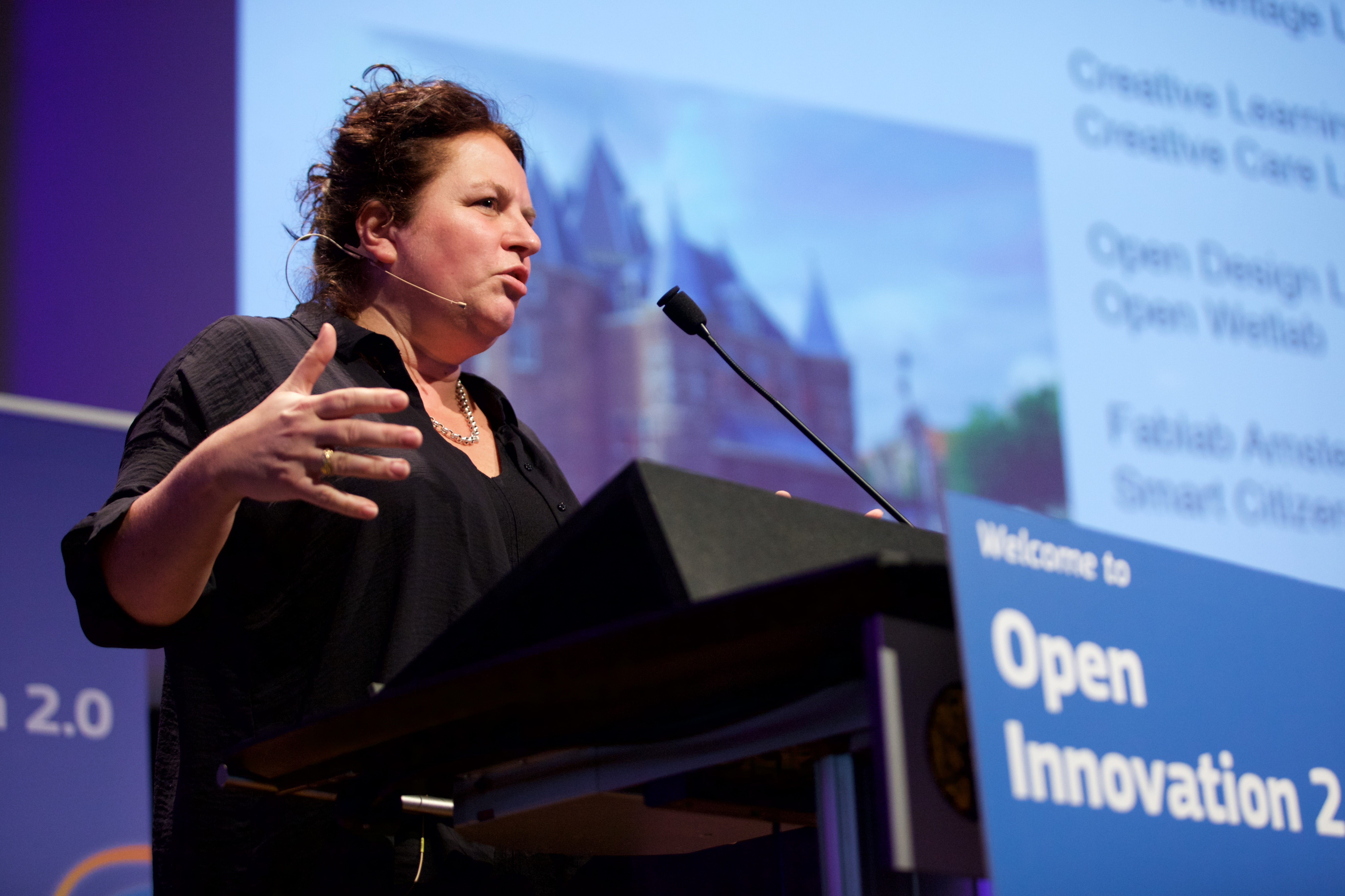 Open Innovation 2.0 Conference 2016